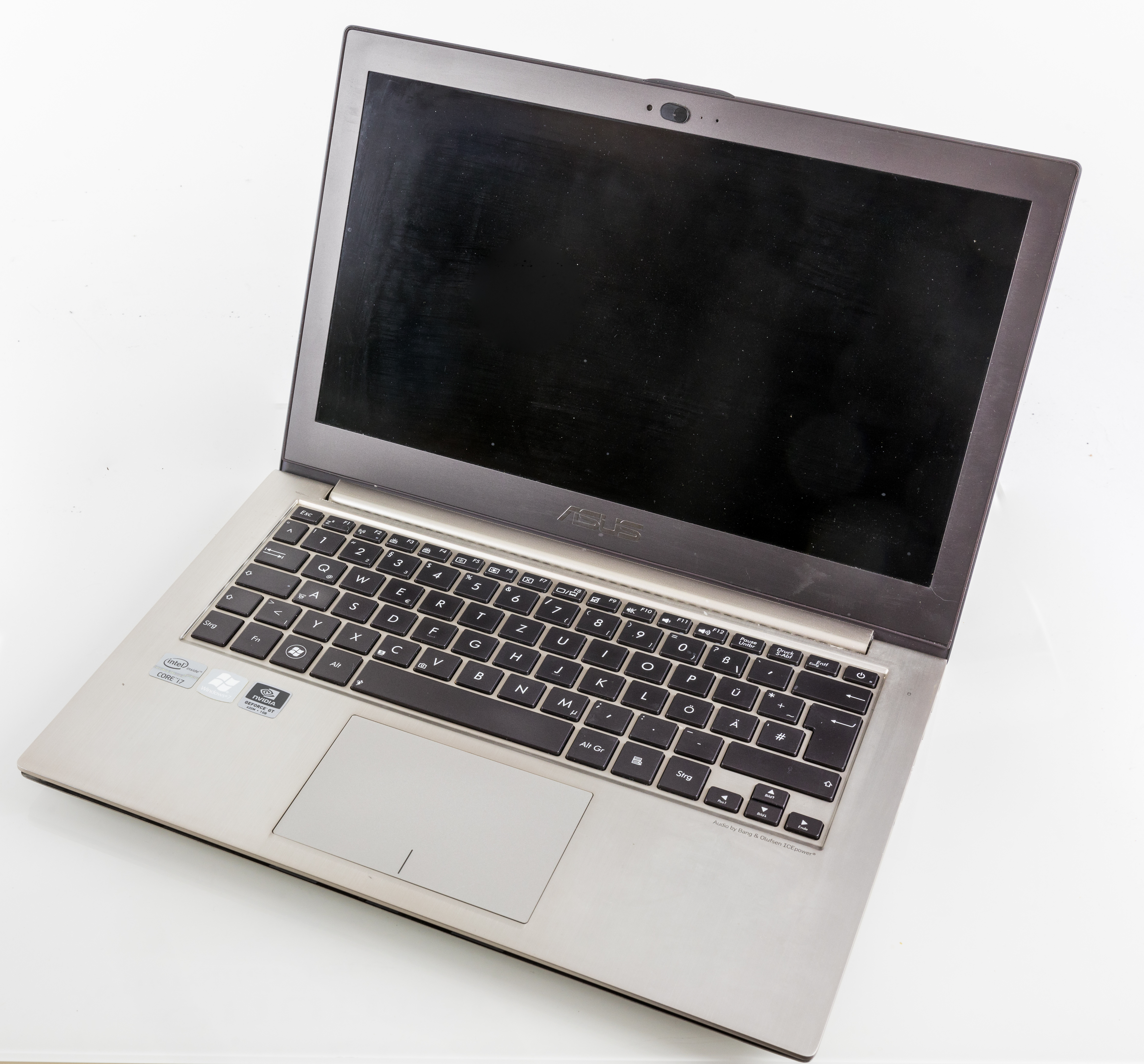 Asus Zenbook UX32V